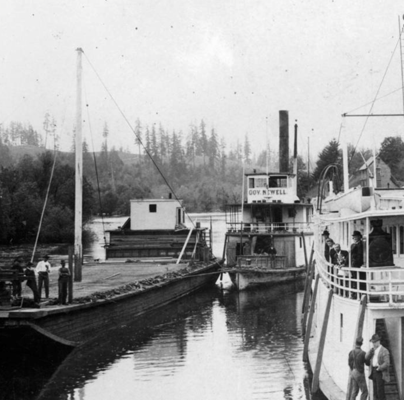 Steamer Gov. Newell at center of image, scow on left, steamer Mascot on right.